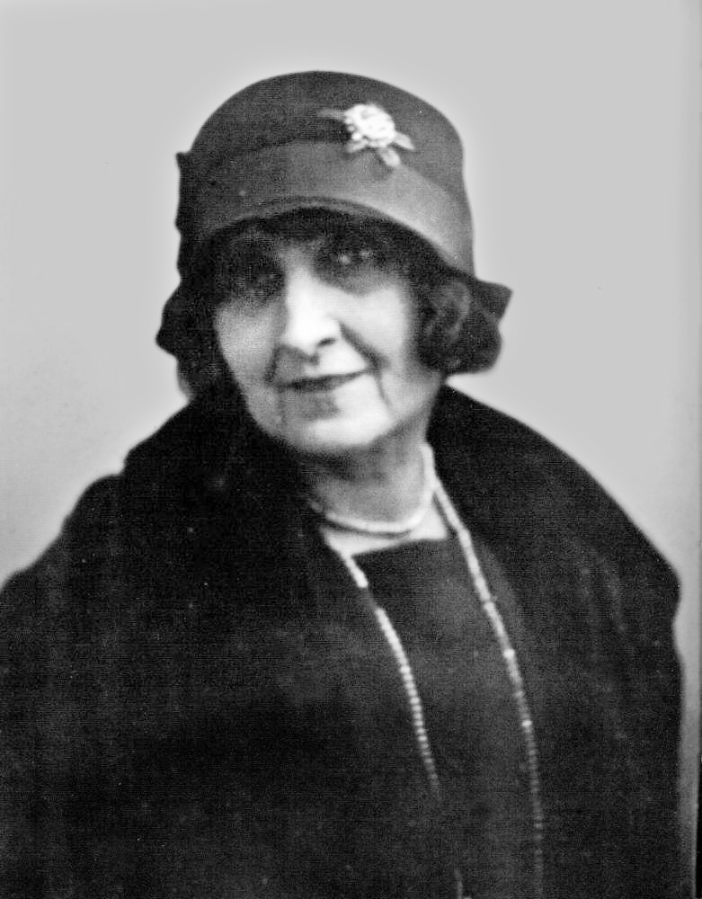 Sonia Lewitska (1874-1937), artist born in Częstochowa (Russian Empire, later - Poland), living in Paris.